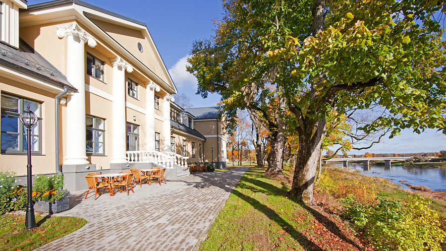 Skrundas muiža, Skats no Ventas upes puses